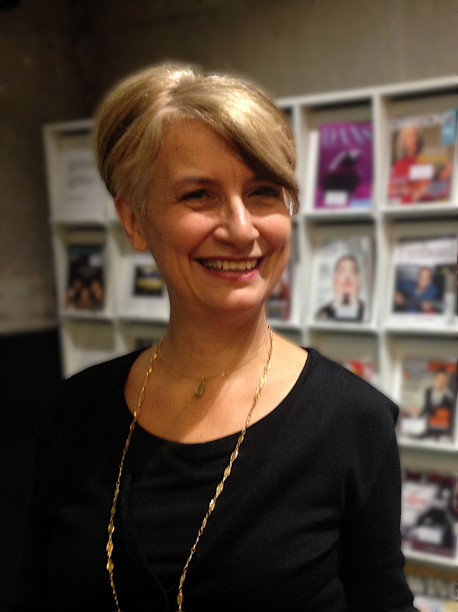 Italian cartoonist Leila Marzocchi, at Serieteket in Stockholm October 2014. (Postprocessed photo to blur out copyrighted magazine covers)